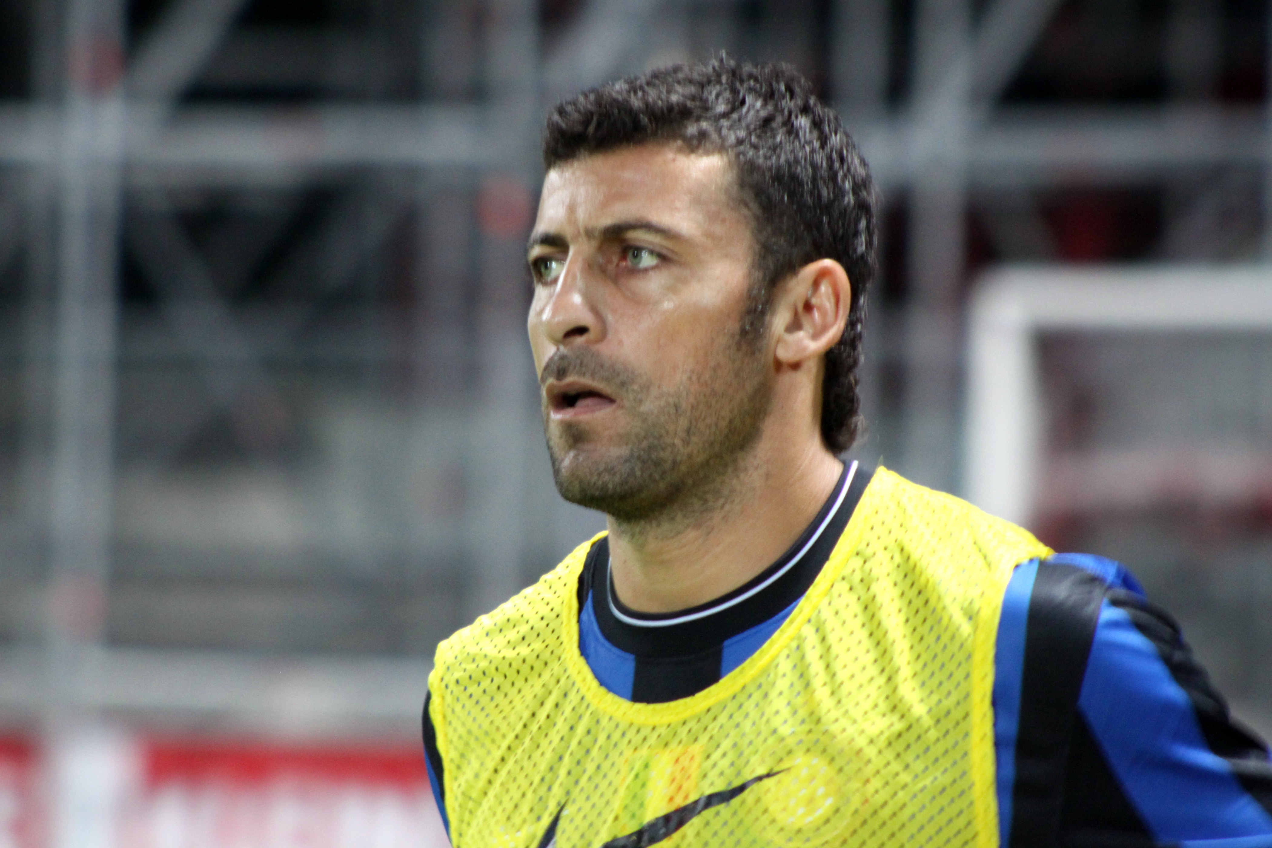 Walter Samuel - F.C. Internazionale Milano